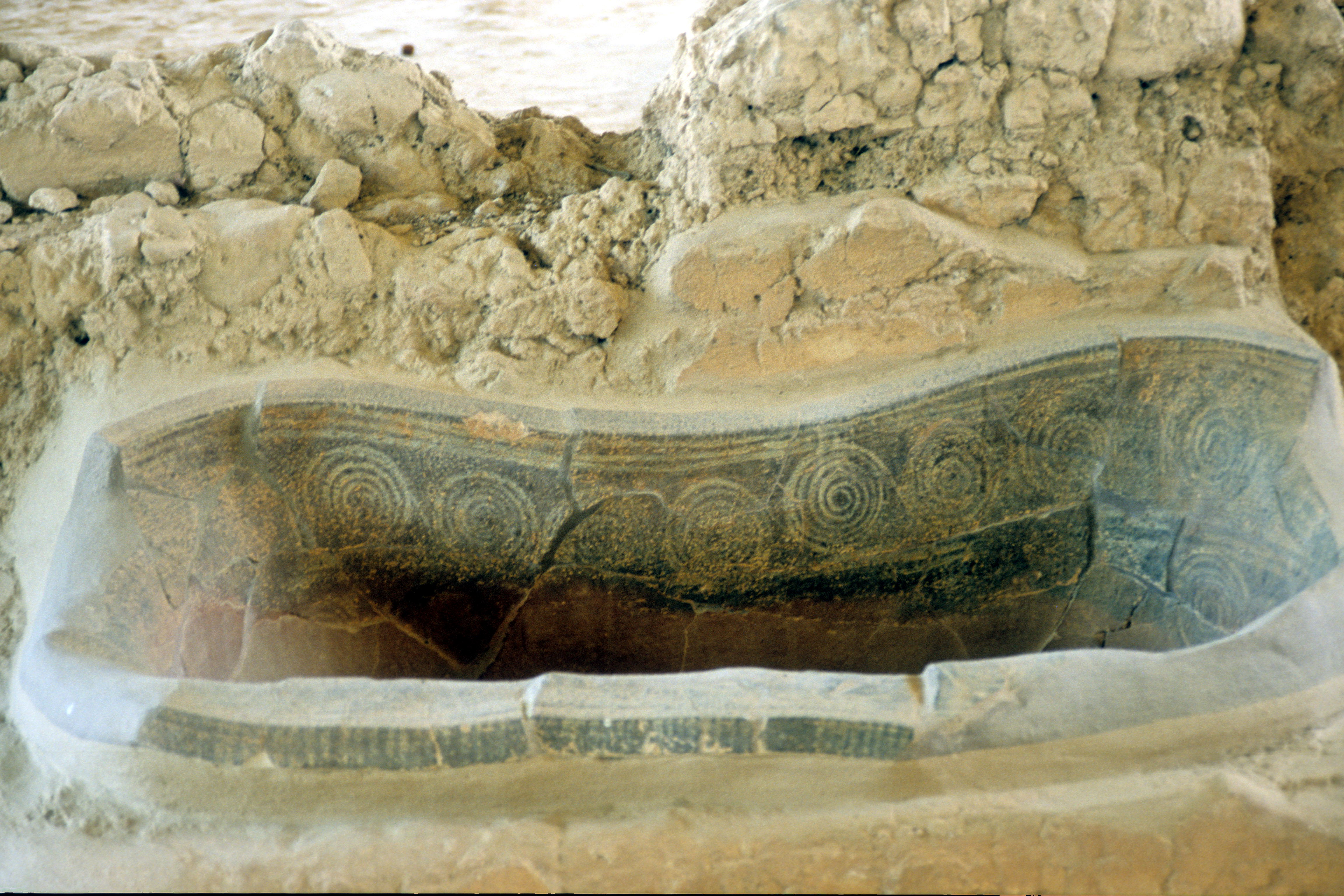 Bathtub of Nestor